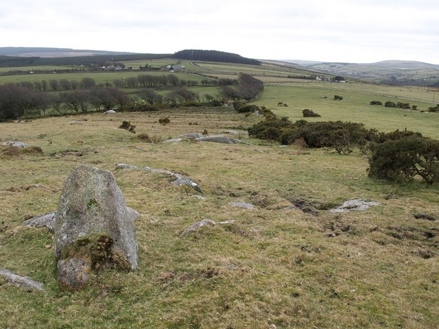 Hendra Downs A view across a large part of the square, from access land below Elephant Rock. The improved terrain on the right is also access land, but access to it seems to be awkward. The A30 crosses the scene in the background, passing Webb's Down and Higher Cannaframe. In between, rows of windswept beeches surround fields.